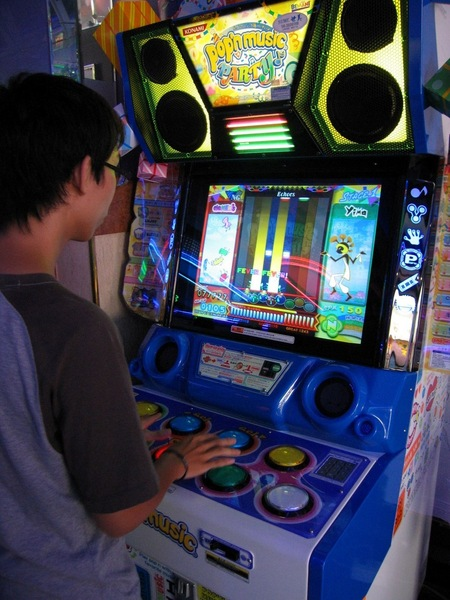 Photo took in a mall in japan who sees a boy playing pop'n music.